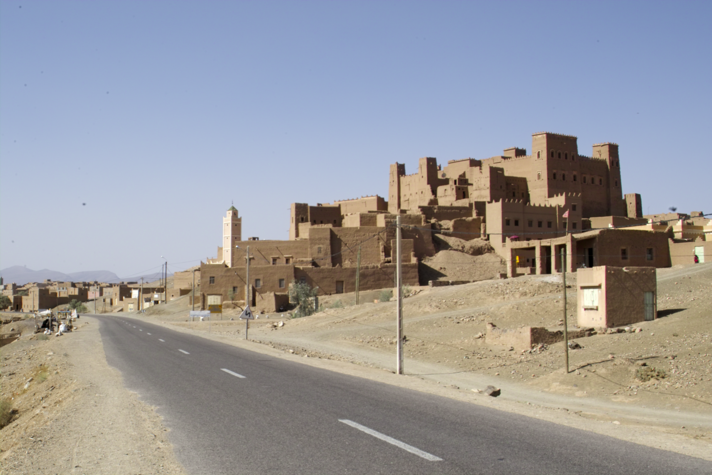 Coming on N9 from Agdz to Zagora, Morocco